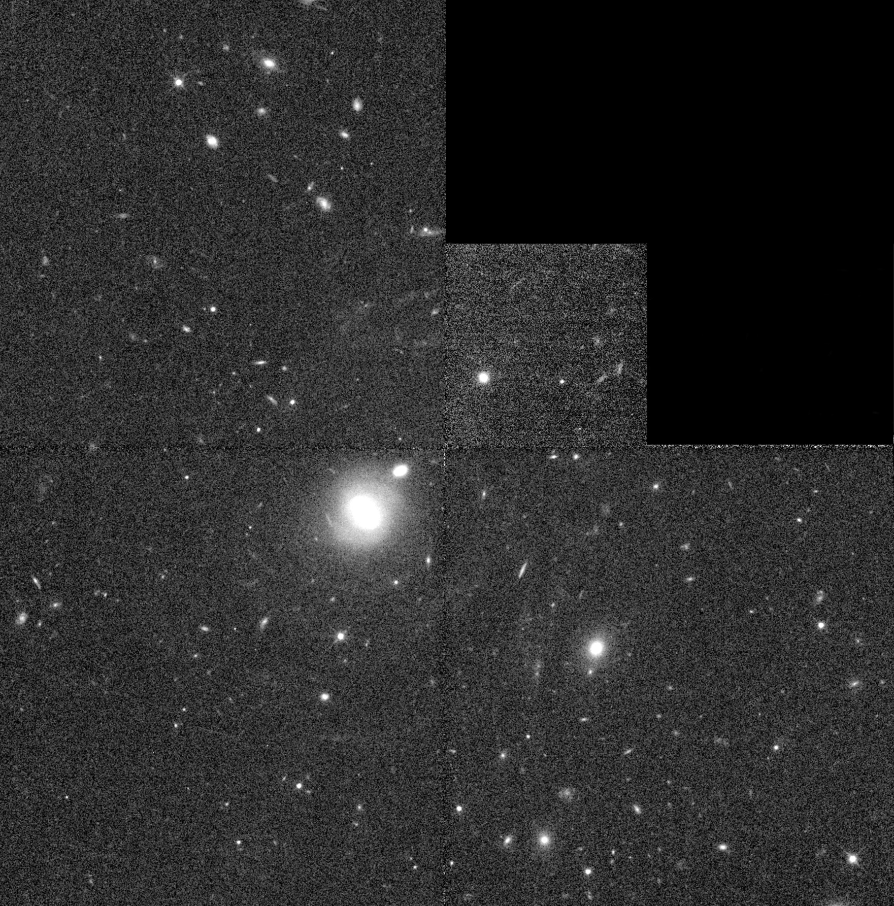 Malin 1 galaxy. Photo taken from Hubble Legacy Archive.